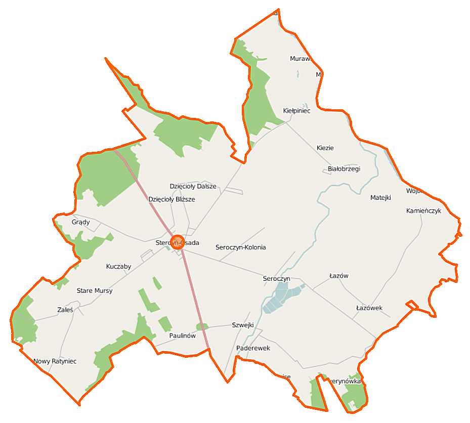 Map of Gmina Sterdyń, Poland This map of Sterdyń (gmina) was created from OpenStreetMap project data, collected by the community. This map may be incomplete, and may contain errors. Don't rely solely on it for navigation. Border coordinates52.658922.1986←↕→22.454052.5191